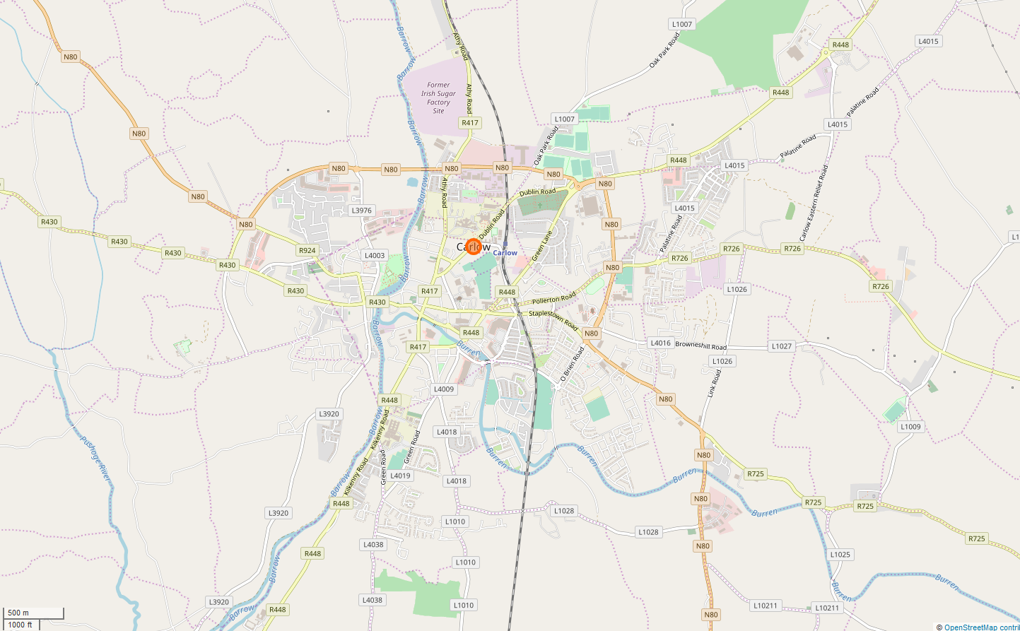 Map of Carlow